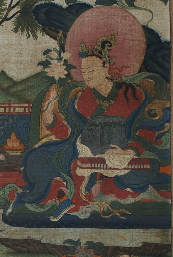 Liyul Chogyel, 3rd Tatsak Jedrung (b.1509 - d.1526)